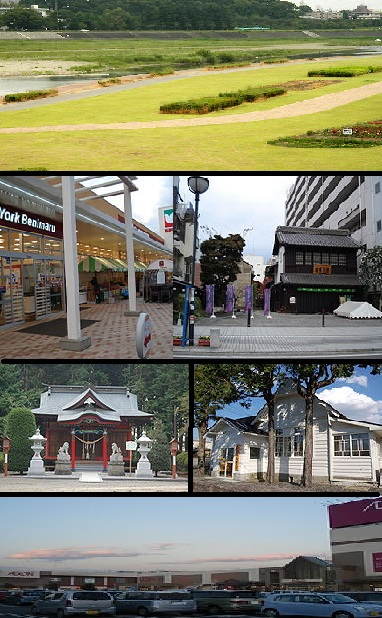 Oyama montage